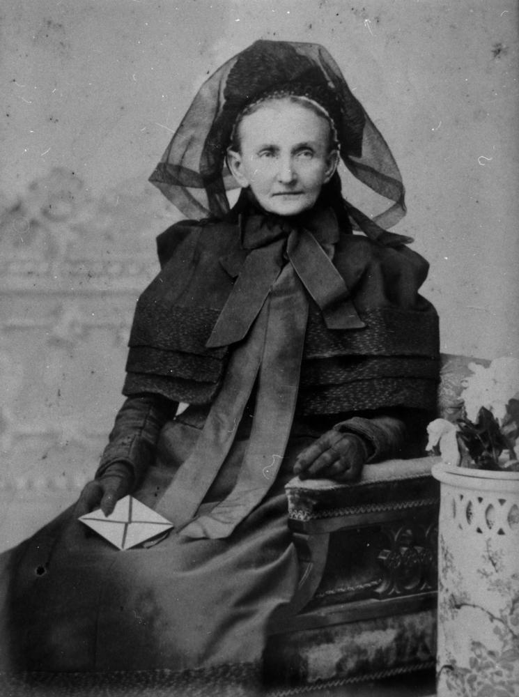 Elderly woman, possibly dressed in mourning clothes, 1890-1900 Mrs. Haskins Snr., early Redcliffe pioneer. (Description supplied with photograph). Mrs. Haskins is wearing a dark coloured skirt, jacket, gloves and headscarf, which suggests she may be in mourning. She is holding an envelope in her right hand.